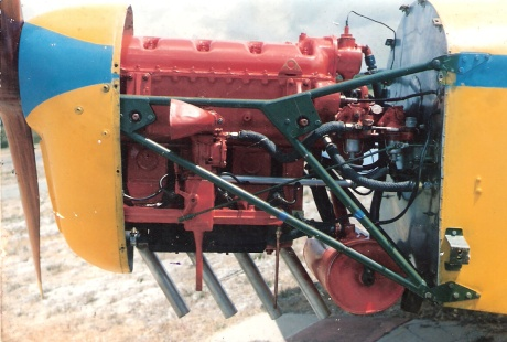 Gypsy Minor Engine (left side), installed in a Druine Turbi owned by Alan Mitchell of Perth, Western Australia from 1973 to 2008.